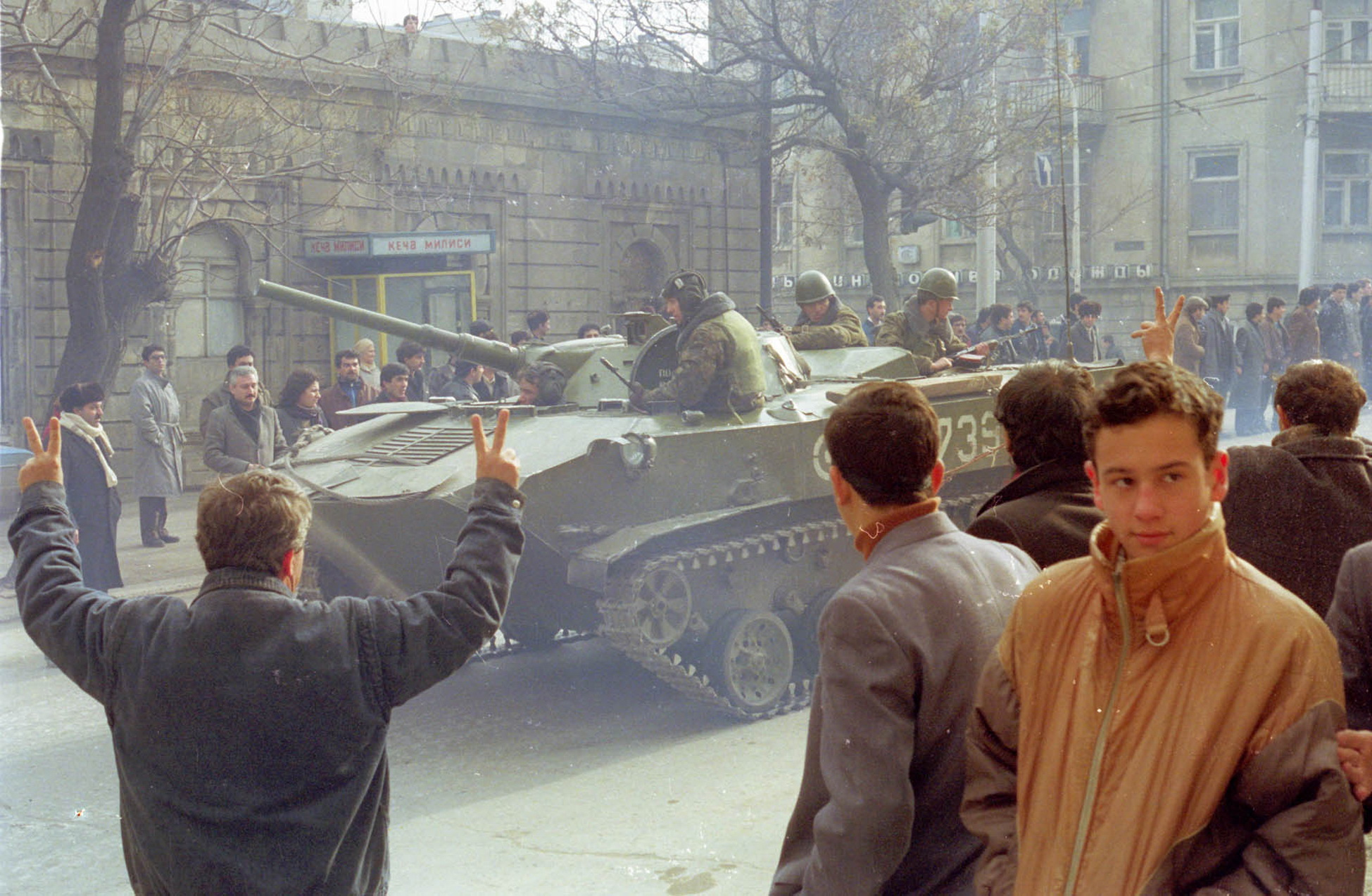 Soviet Red Army motor rifle troopers in Baku 1990 January/February.